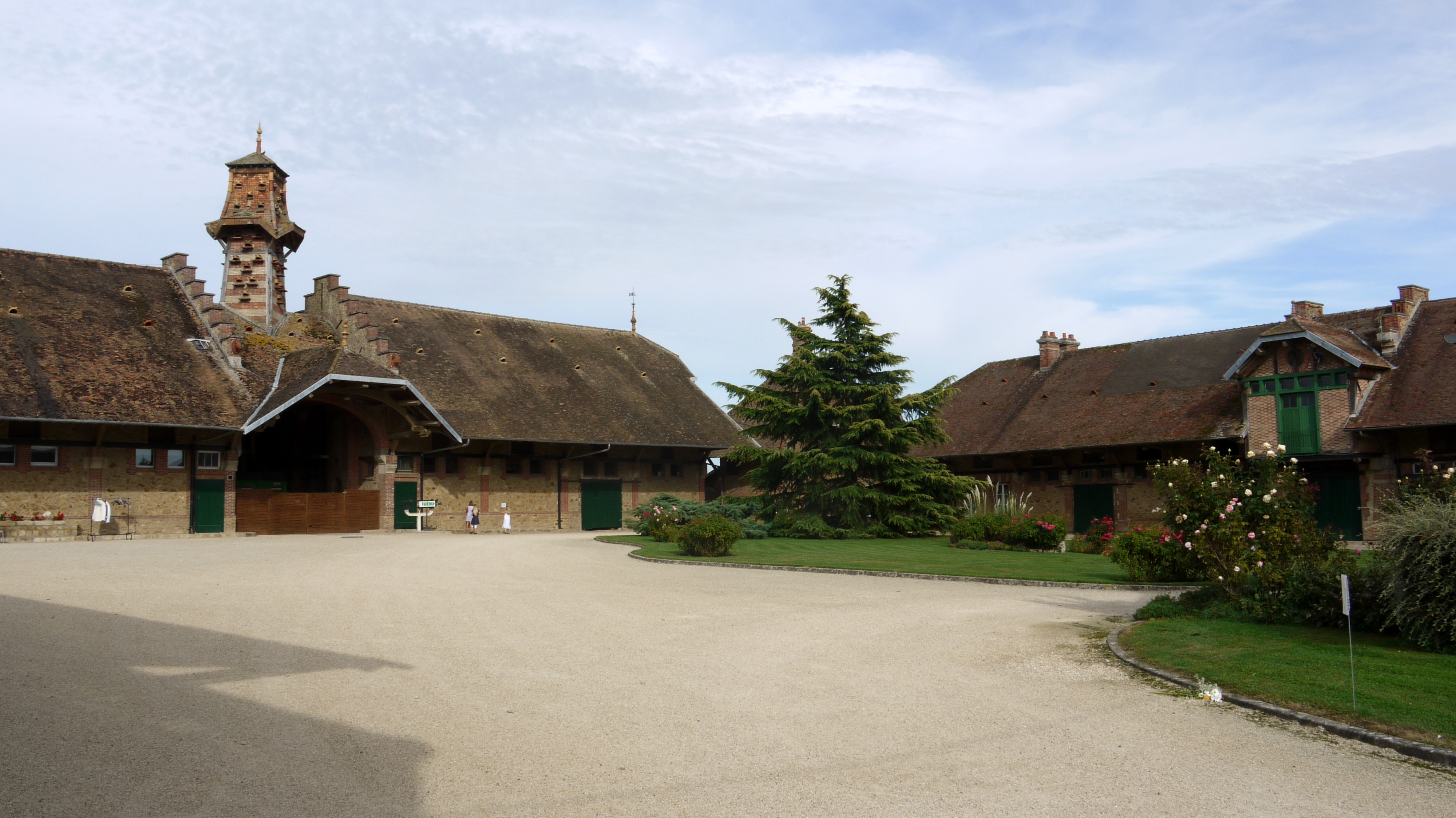 Farm in the hamlet of Forest with a dovecote tower, Chaumes_en_Brie, Seine et Marne, Ile de France